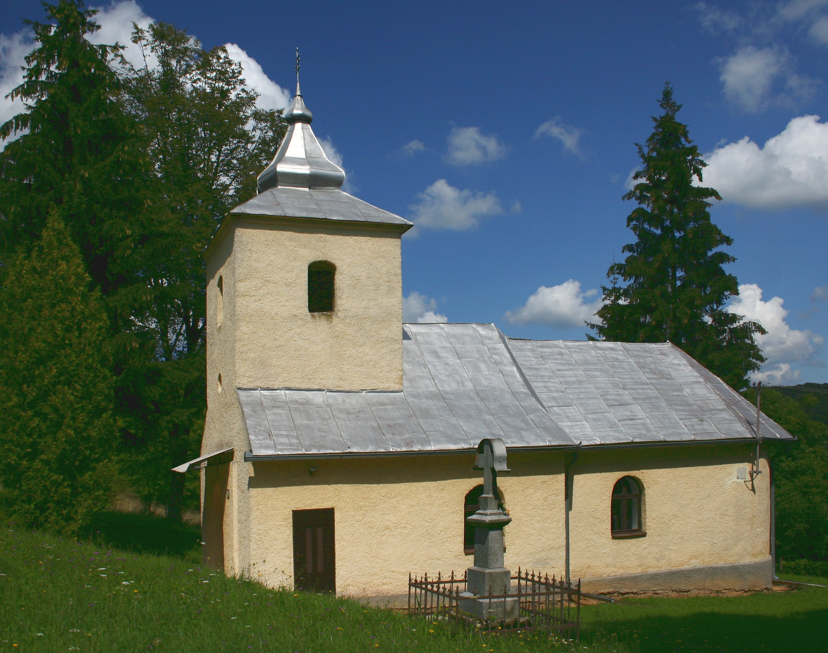 cerkiew in Vavrinec, Slovakia